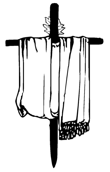 Darfash (Mandaean cross), symbol of Mandaeaism, religion of Mandaeans.